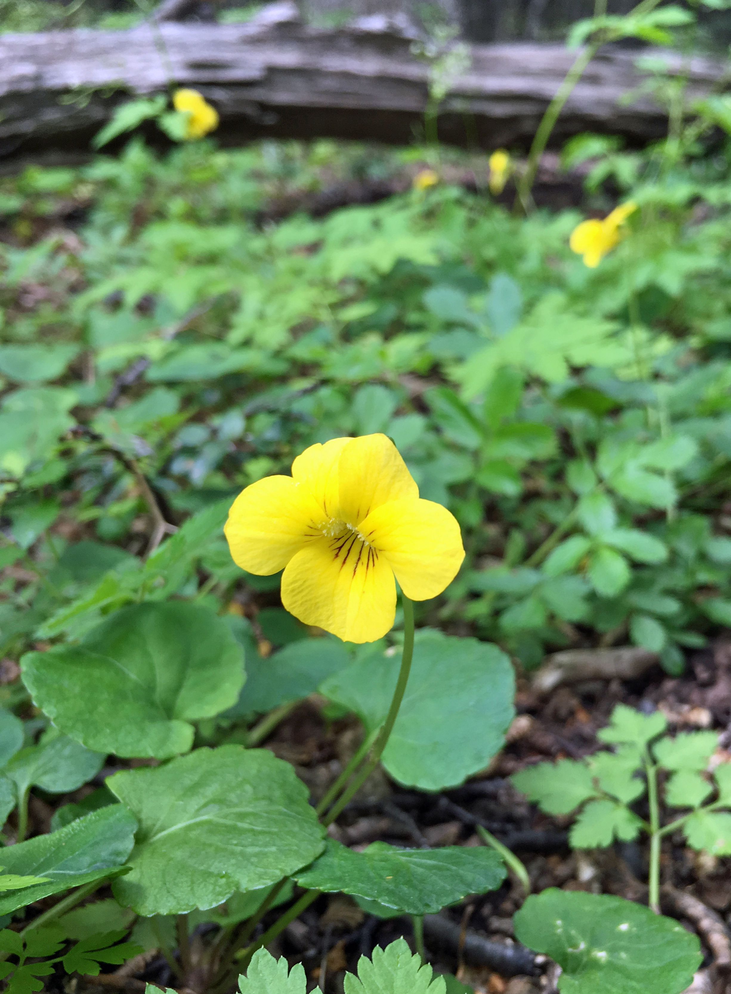 Viola reichei (yellow violet) in Torres del Paine National Park, Chile